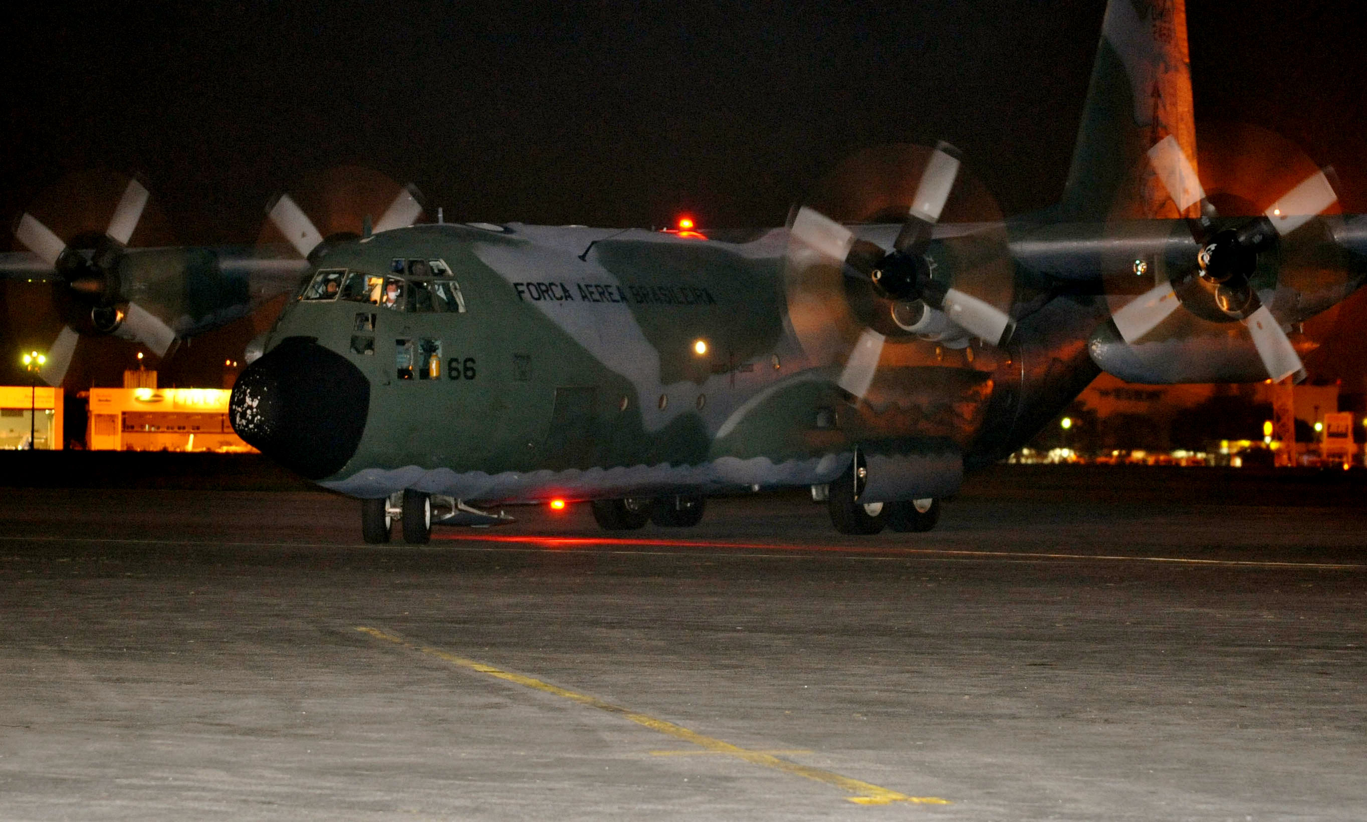 A C-130 Hercules aircraft of the Brazilian Air Force with the first 16 recovered bodies of Air France Flight 447, which were transported from the air base to the Instituto Médico Legal (IML, "Legal Medical Institute") for identification.